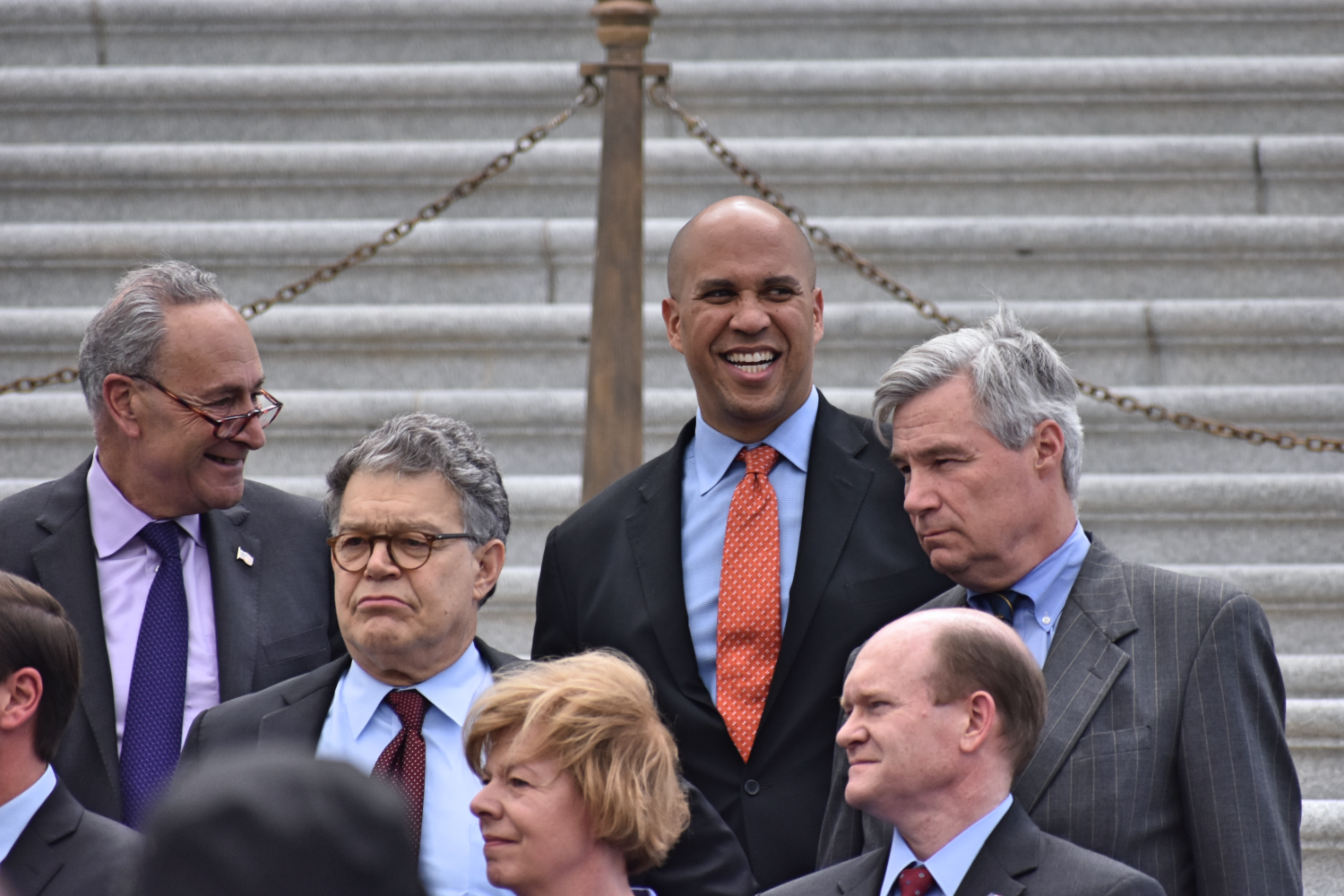 WASHINGTON, DC -- JULY 25 2017: Democratic Senators address a crowd of supporters at a rally on the Capitol steps after the motion to proceed vote on the Trumpcare bill.